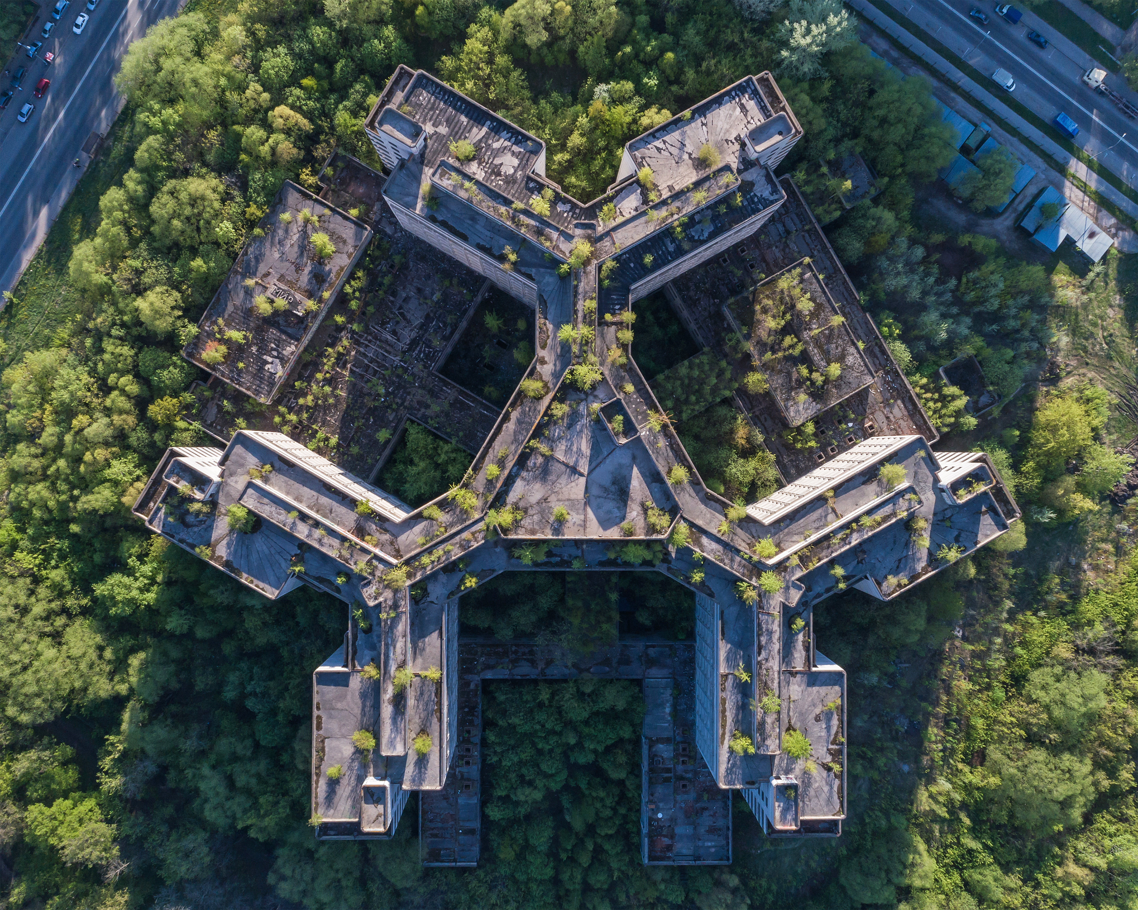 Aerial photo of abandoned unfinished construction of Khovrino Hospital in Moscow (Russia).